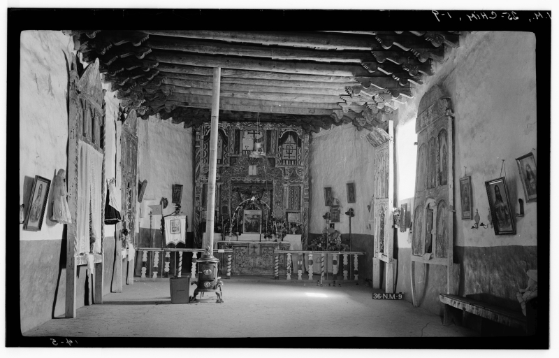 Interior of the El Santuario Del Senor Esquipula, Chimayo. At the Santuario de Chimayó in New Mexico. Image courtesy of the federal HABS—Historic American Buildings Survey of New Mexico project.